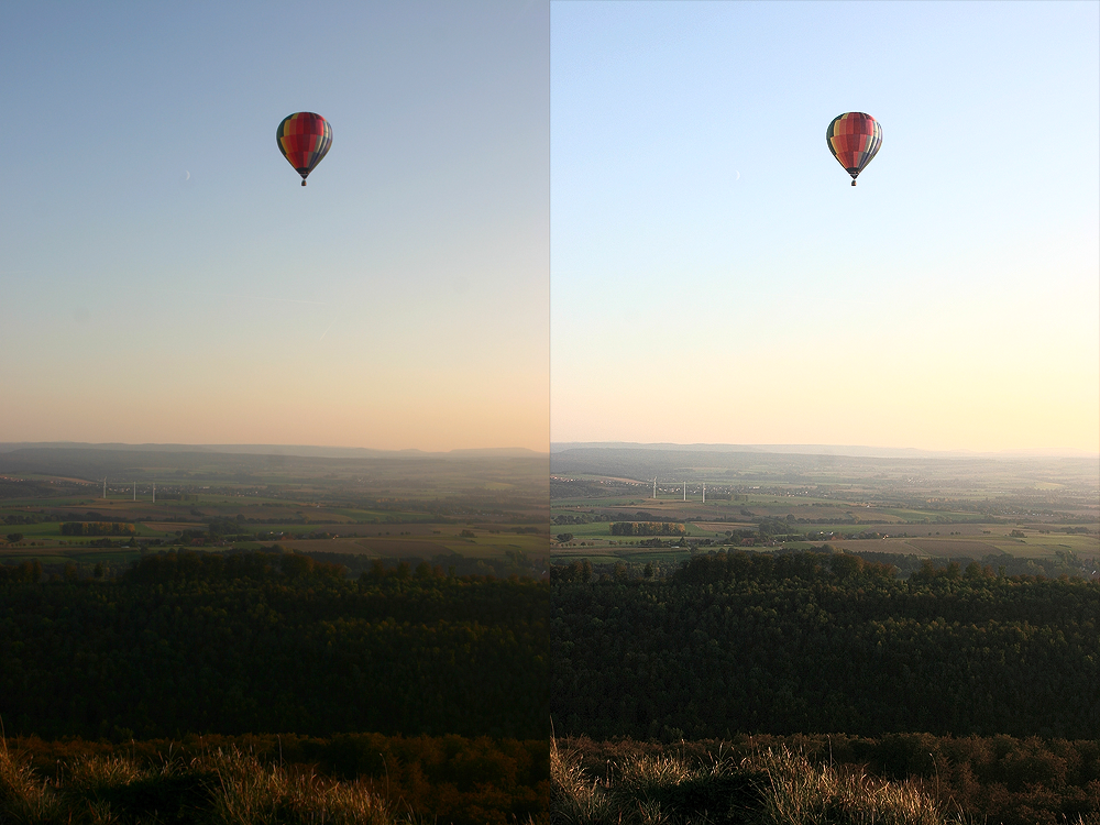 To avoid color changements, the image was transferred into Lab mode and the enhancements were made only on the L channel.